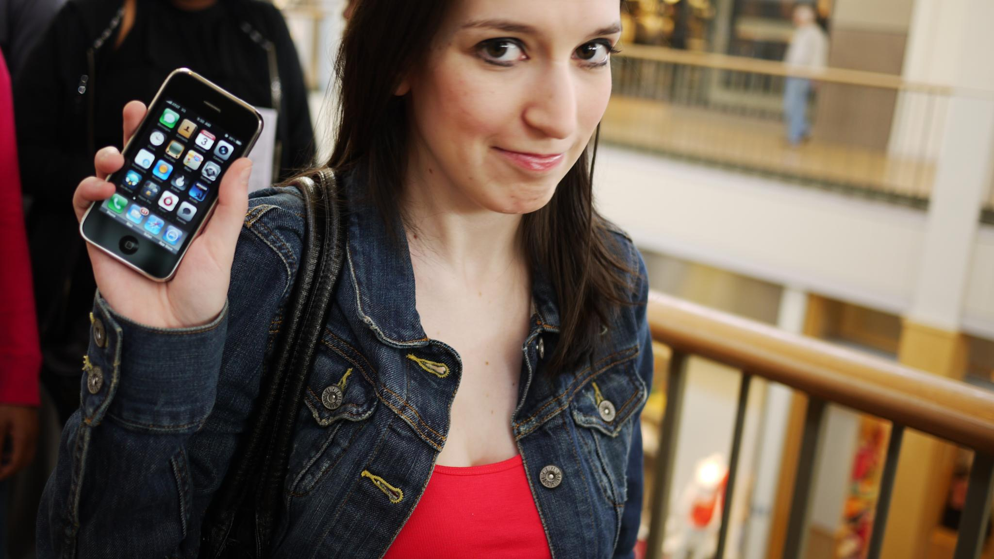 Launch day at the Apple store. There's nothing like an Apple product launch, and everyone in line was cheerful, excited and friendly. Thanks much to the Apple store employees who were tolerant of me and my camera as I wandered around.